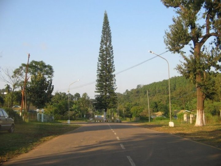 The main avenue road NEEPCO township umrangso